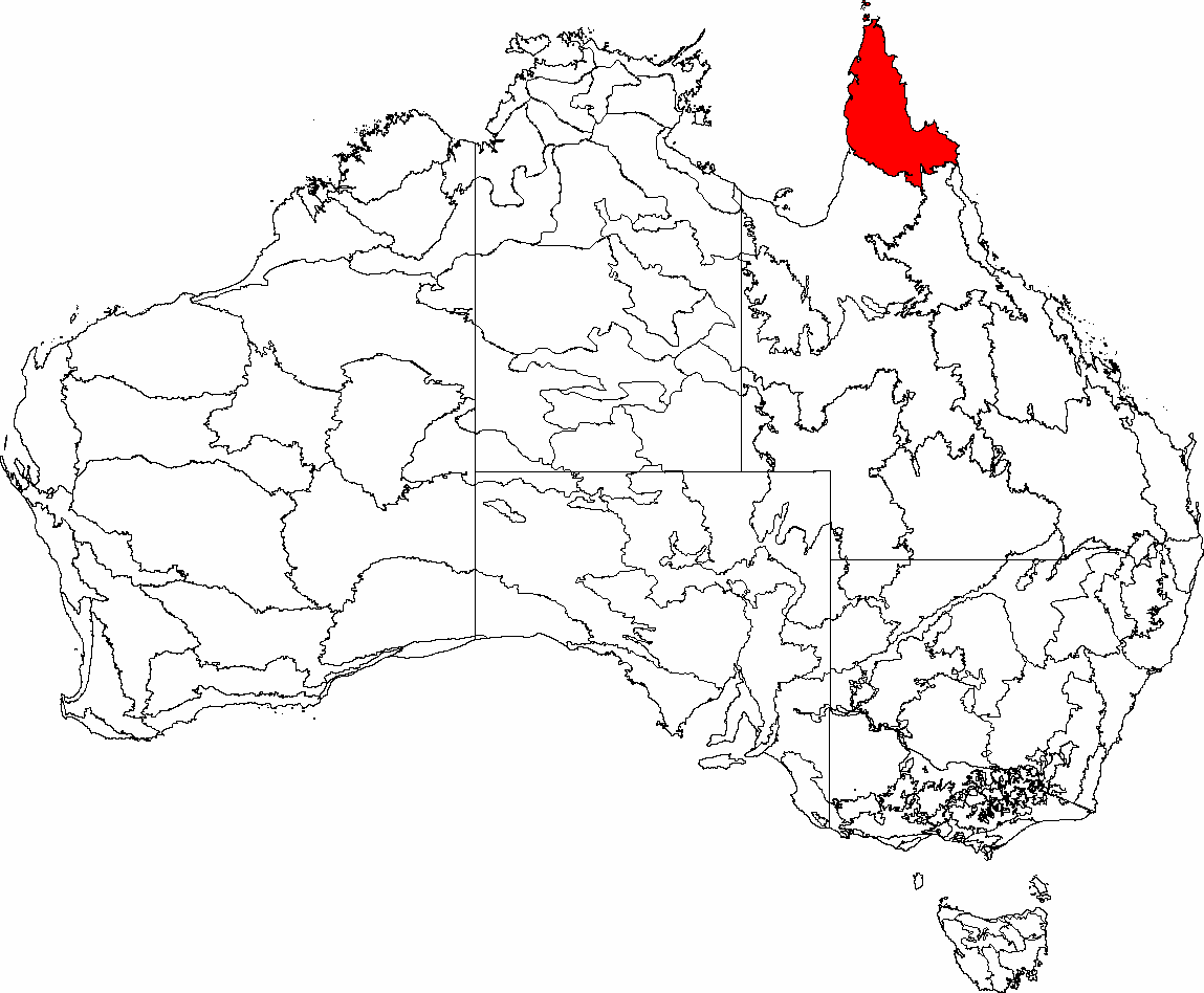 This is a map of the Interim Biogeographic Regionalisation of Australia (IBRA), with state boundaries overlaid. The Cape York Peninsula region is shown in red.